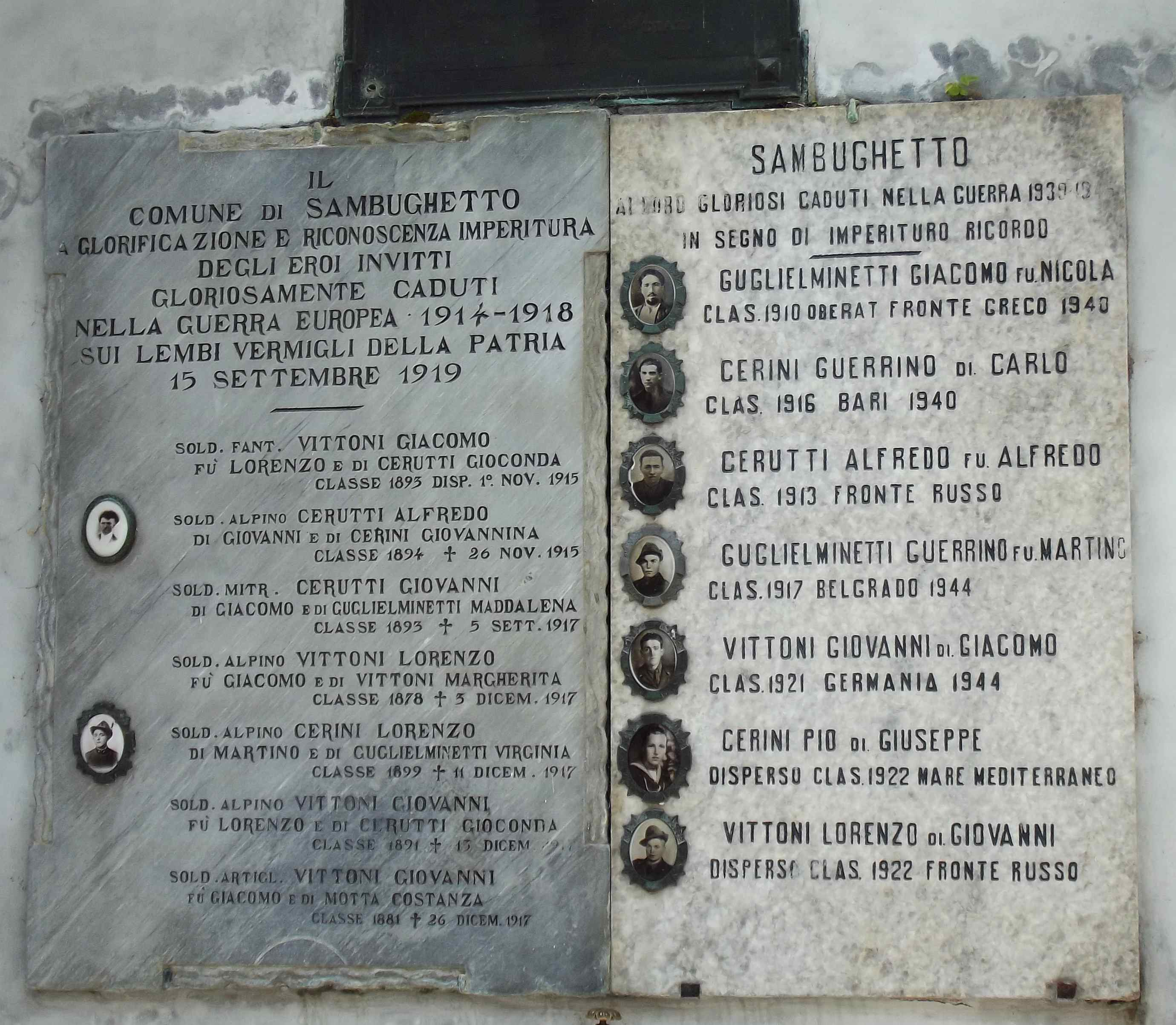 Sambughetto (Valstrona, VB): war memorial plaque